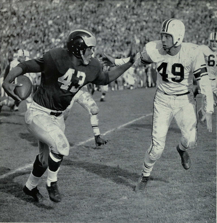 Photograph of Jim Pace giving stiff-arm to Northwestern's Ollie Lindborg in 1955 This work is in the public domain because it was published in the United States between 1923 and 1963 and although there may or may not have been a copyright notice, the copyright was not renewed. Unless its author has been dead for the required period, it is copyrighted in the countries or areas that do not apply the rule of the shorter term for US works, such as Canada (50 pma), Mainland China (50 pma, not Hong Kong or Macao), Germany (70 pma), Mexico (100 pma), Switzerland (70 pma), and other countries with individual treaties. See Commons:Hirtle chart for further explanation. This work is in the public domain because it was published in the United States between 1923 and 1977 and without a copyright notice. Unless its author has been dead for several years, it is copyrighted in jurisdictions that do not apply the rule of the shorter term for US works, such as Canada (50 p.m.a.), Mainland China (50 p.m.a., not Hong Kong or Macao), Germany (70 p.m.a.), Mexico (100 p.m.a.), Switzerland (70 p.m.a.), and other countries with individual treaties. See this page for further explanation.